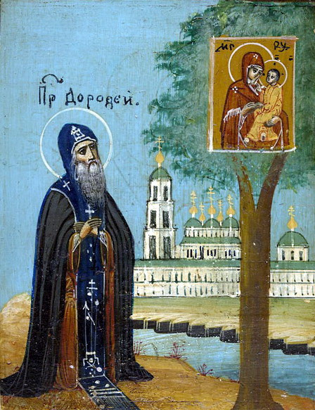 Phenomenon Yugh Hodegetria to St. Dorofei